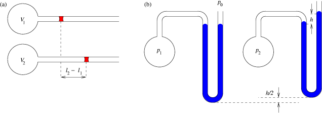 Gas thermometer scheme